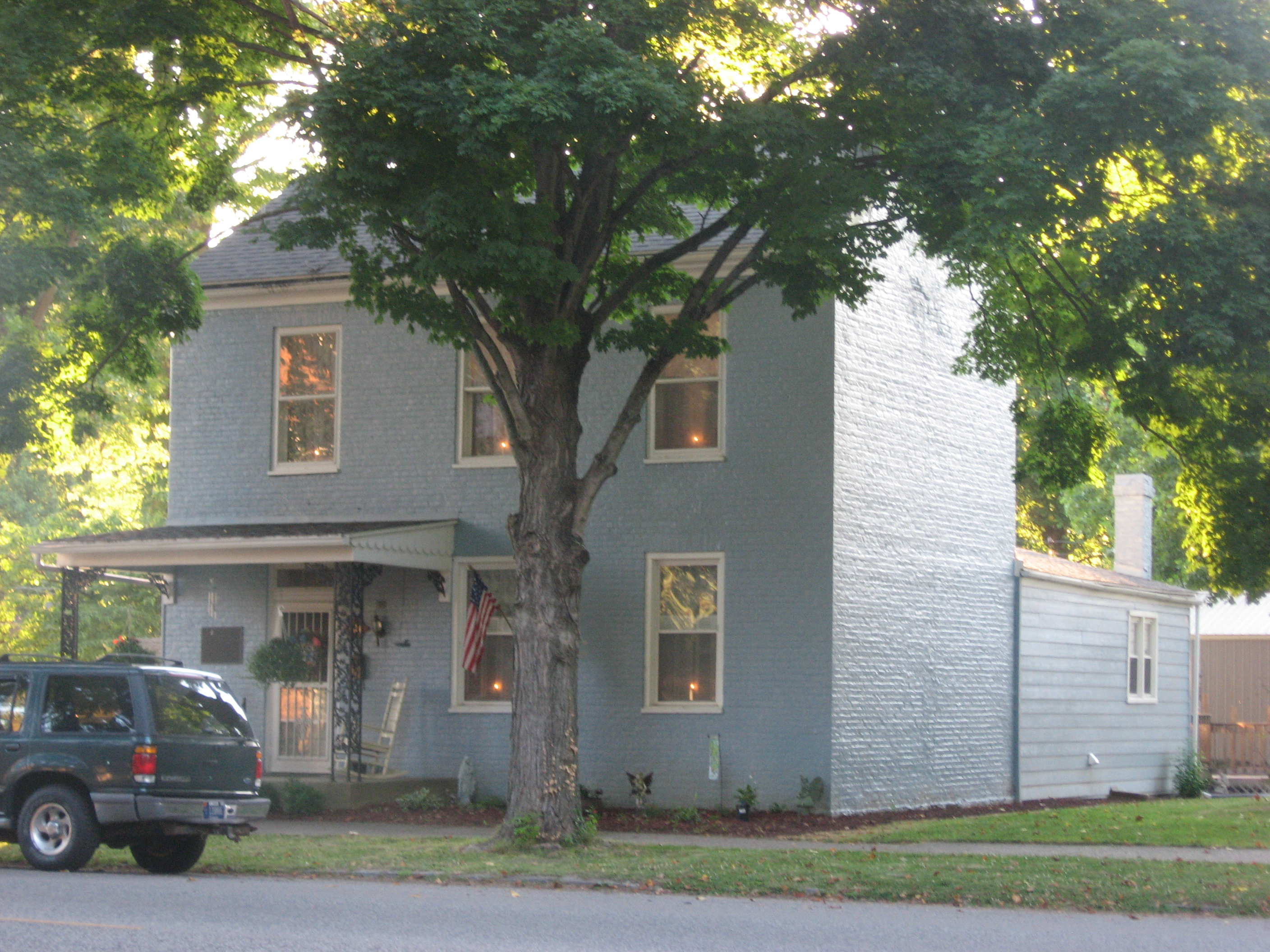 Front and eastern side of the Edward and George Cary Eggleston House, located at 306 W. Main Street (State Road 56) in Vevay, Indiana, United States. Built in 1830 and the childhood home of Edward Eggleston, it is listed on the National Register of Historic Places, and it is part of the locally-designated Vevay Historic District.